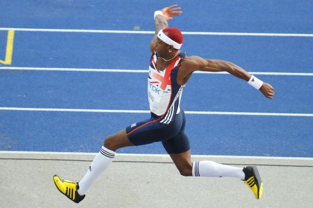 Phillips Idowu at Worldchampionships Athletics 2009 in Berlin